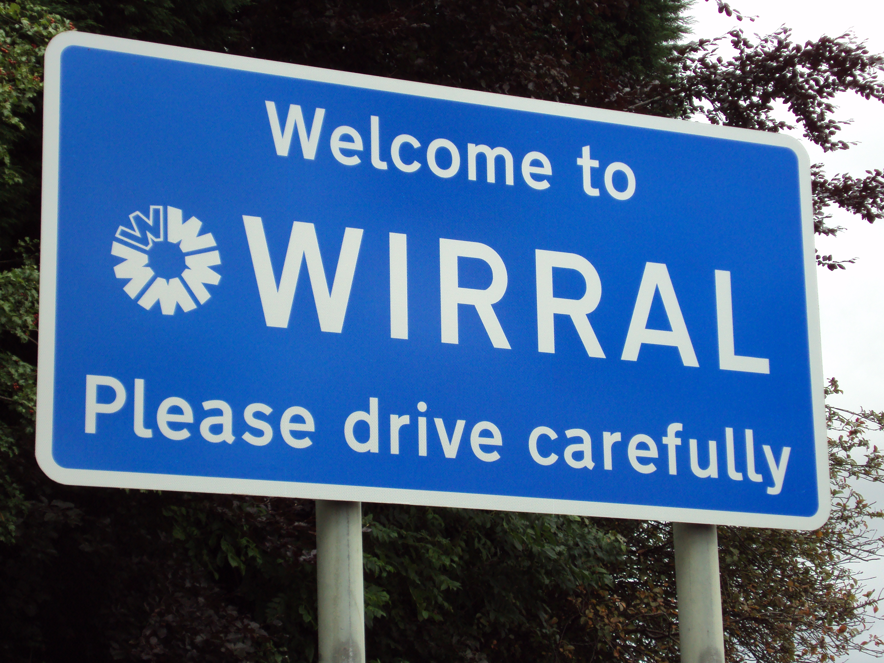 Sign at the boundary between Cheshire and Merseyside on the A540 Chester Road near Gayton, Wirral, England. The sign is referring specifically to the Metropolitain borough of Wirral, Merseyside as this point is already a few miles inside the geographical Wirral Peninsula.